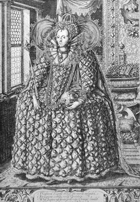 Elizabeth I, queen of England (1533-1603)